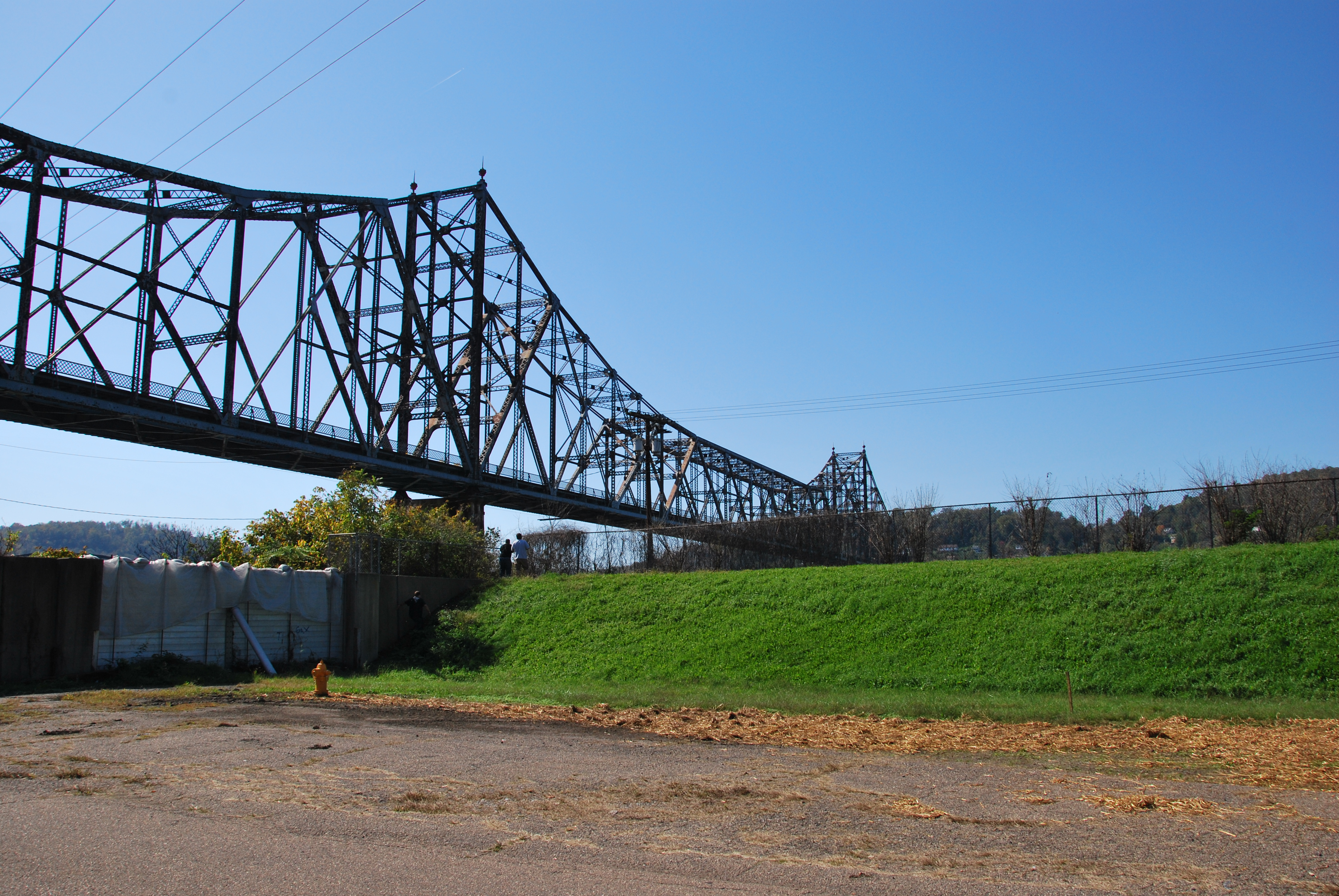 Photo of Bellaire Bridge from West Virginia side.